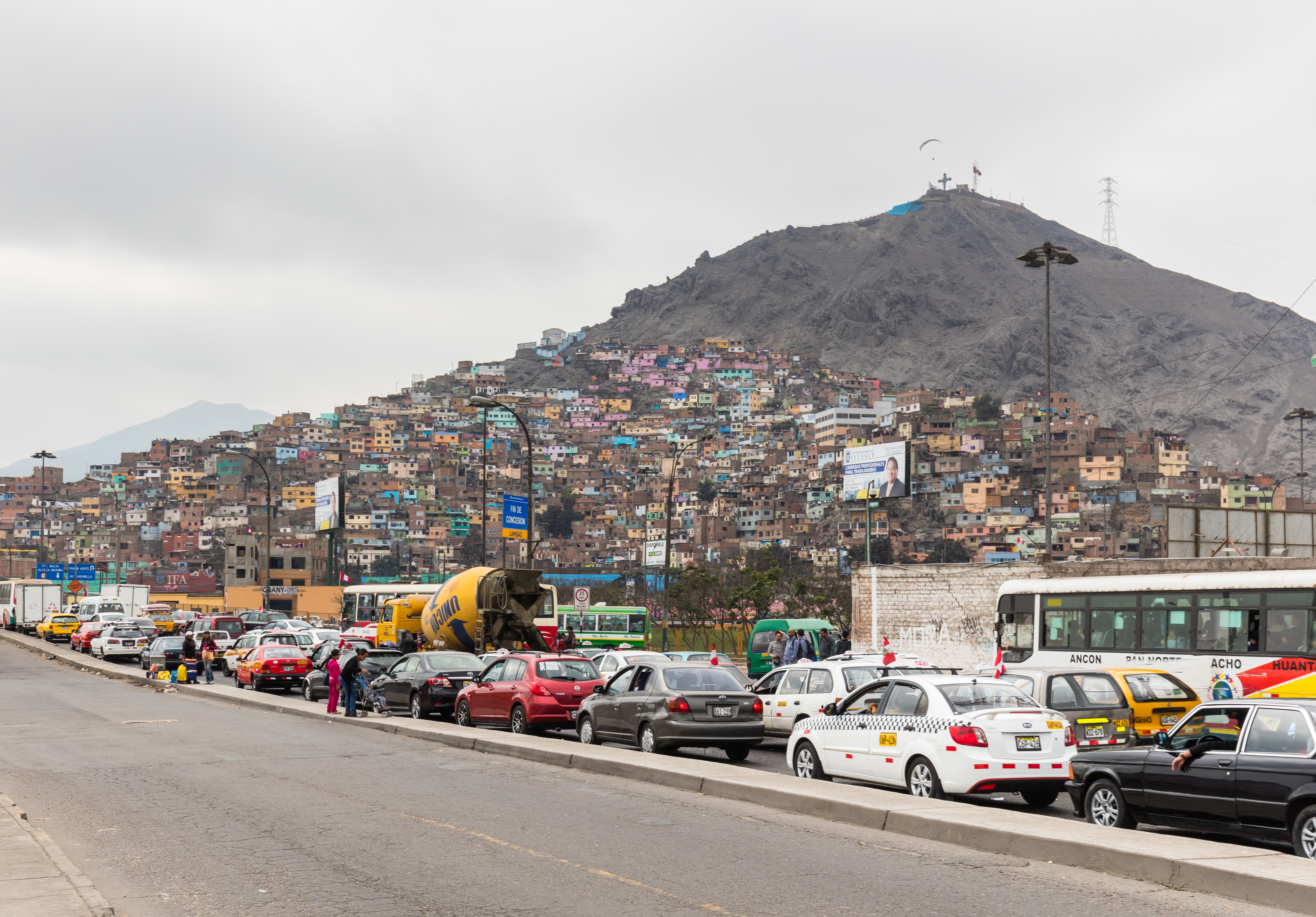 San Cristobal hill, Lima, Peru